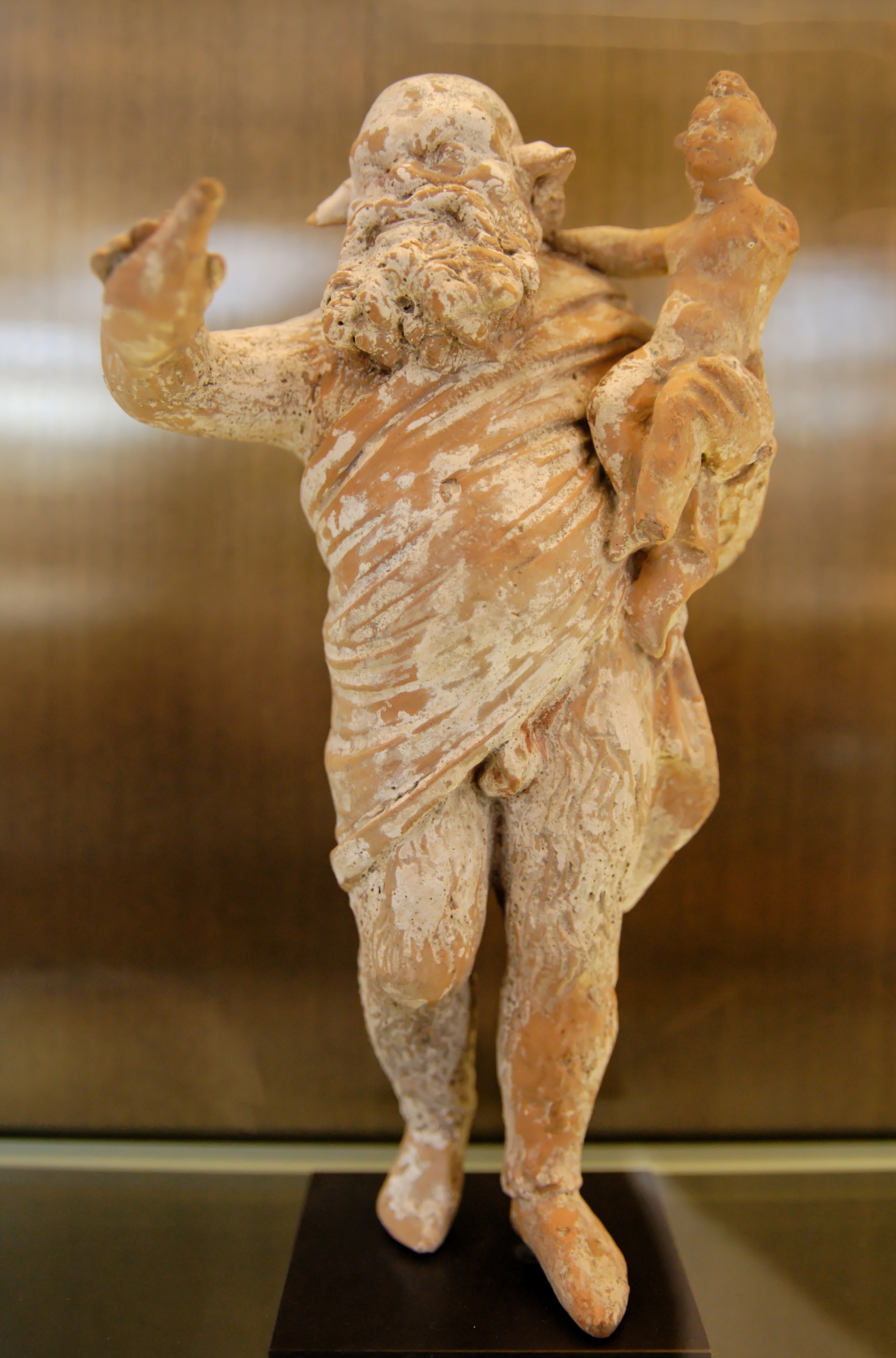 Papposilenus bearing the child Dionysos. Terracotta, ca. 350-300 BC, variant of the Hermes of Olympia. From Tanagra.